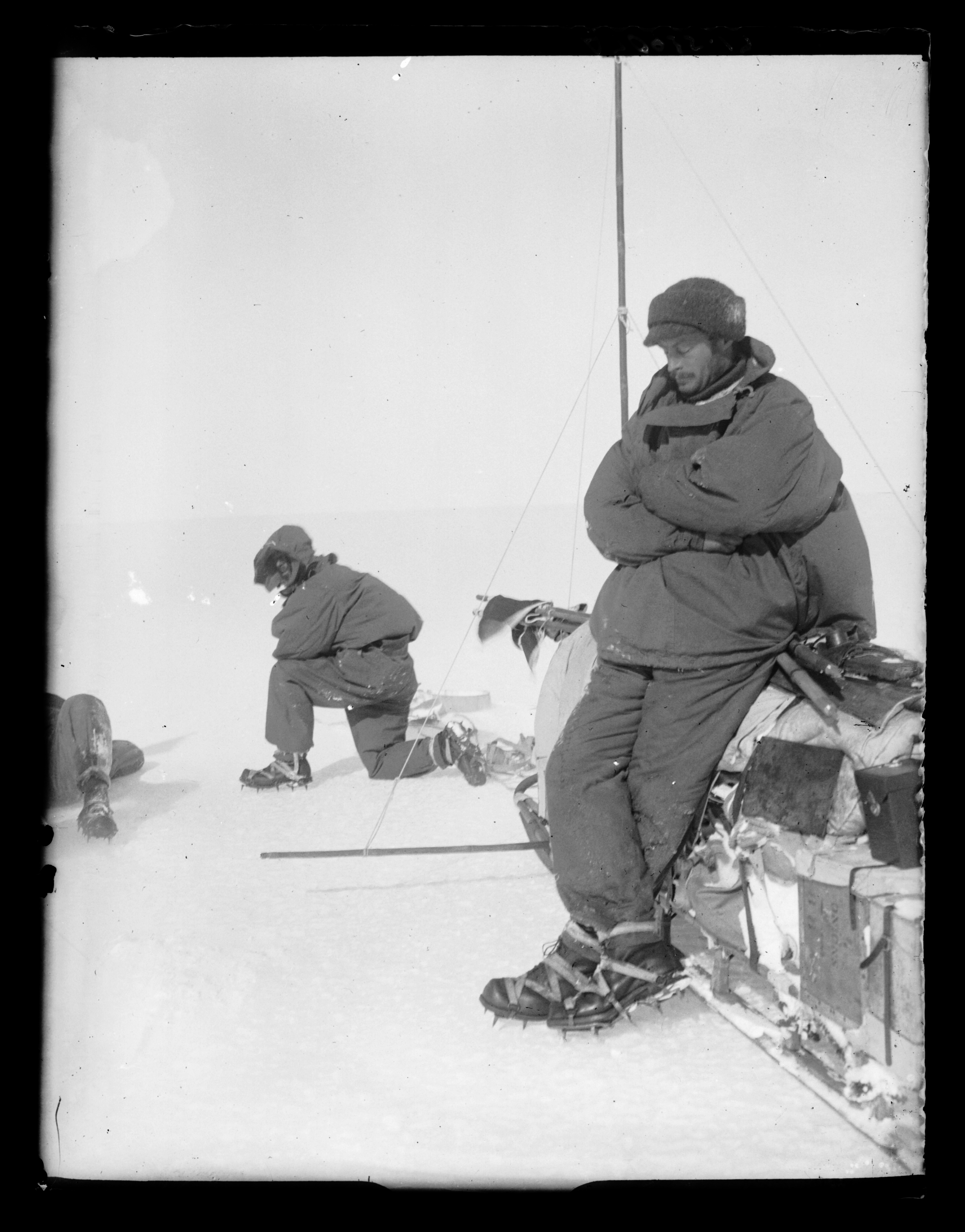 Mawson rests at the side of sledge, Adelie Land, Antarctica, 1912, photo by Xavier Mertz, from original negative, State Library of New South Wales Home and Away - 36771